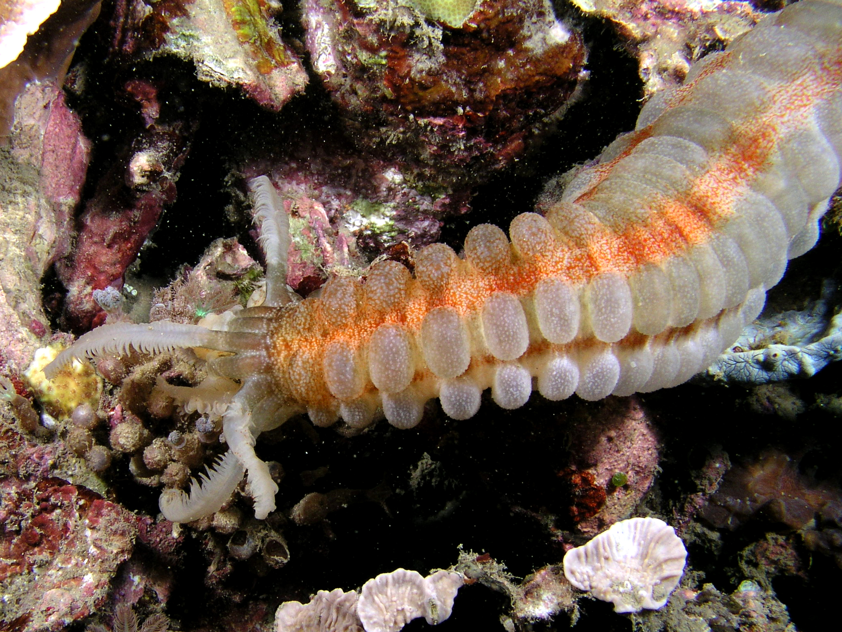 Eupata godeffroyi sea cucumber feeding at night in East Timor.